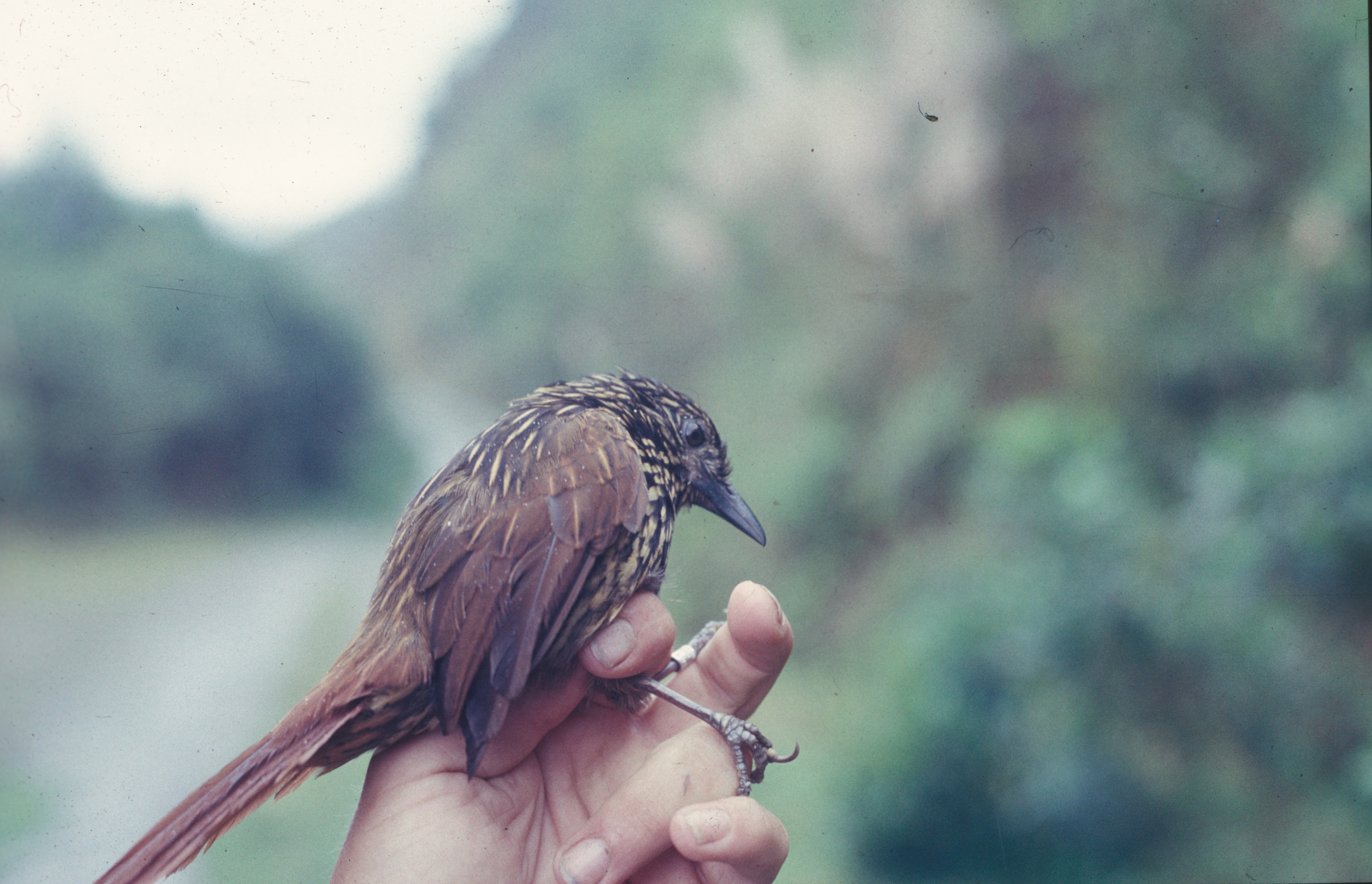 Flammulated Treehunter (Thripadectes flammulatus in Ecuador)}. Picture from the NBII Image Gallery.